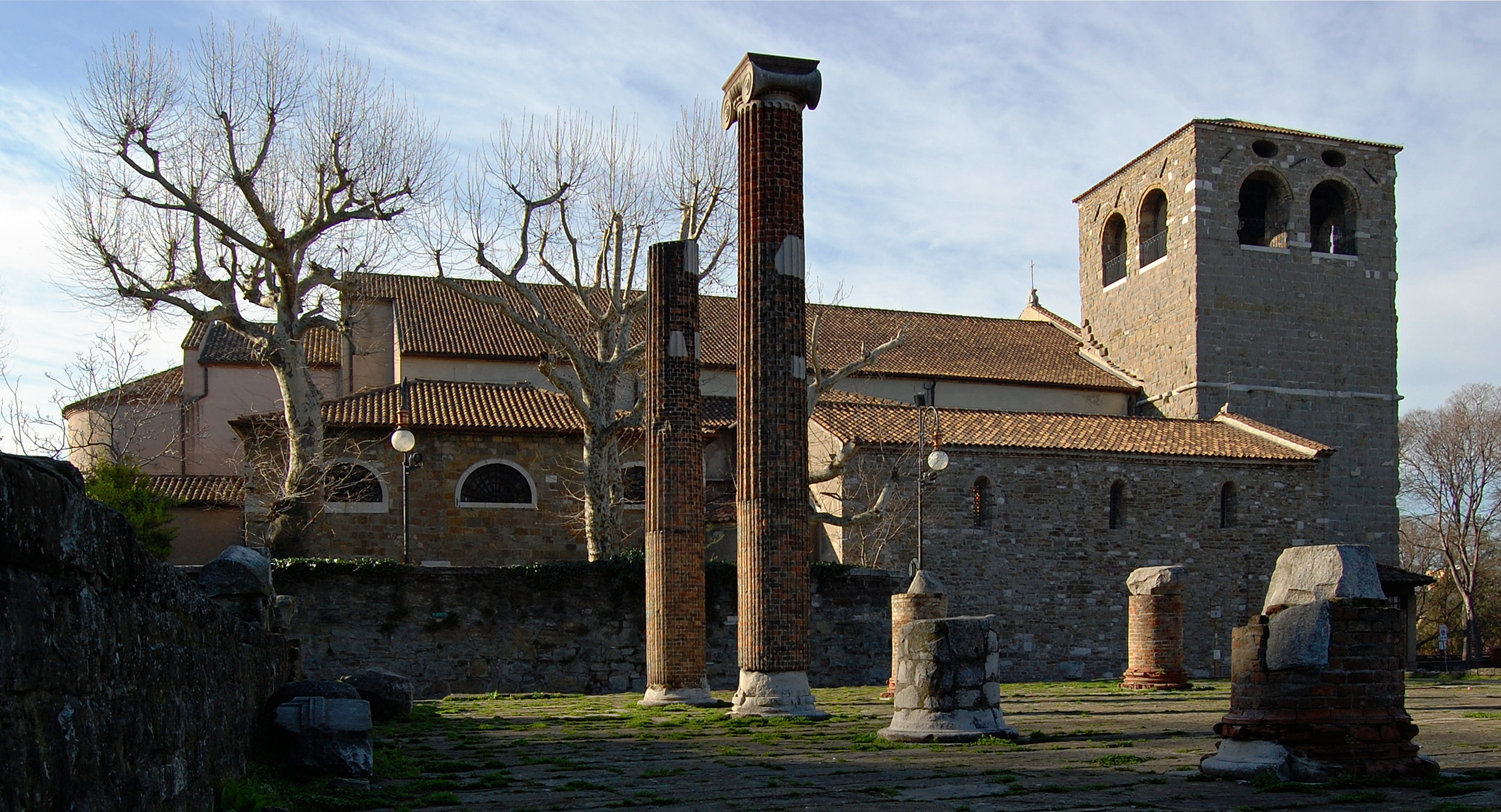 The San Giusto Cathedral in Trieste, with some remainders of the ancient Roman forum in the foreground